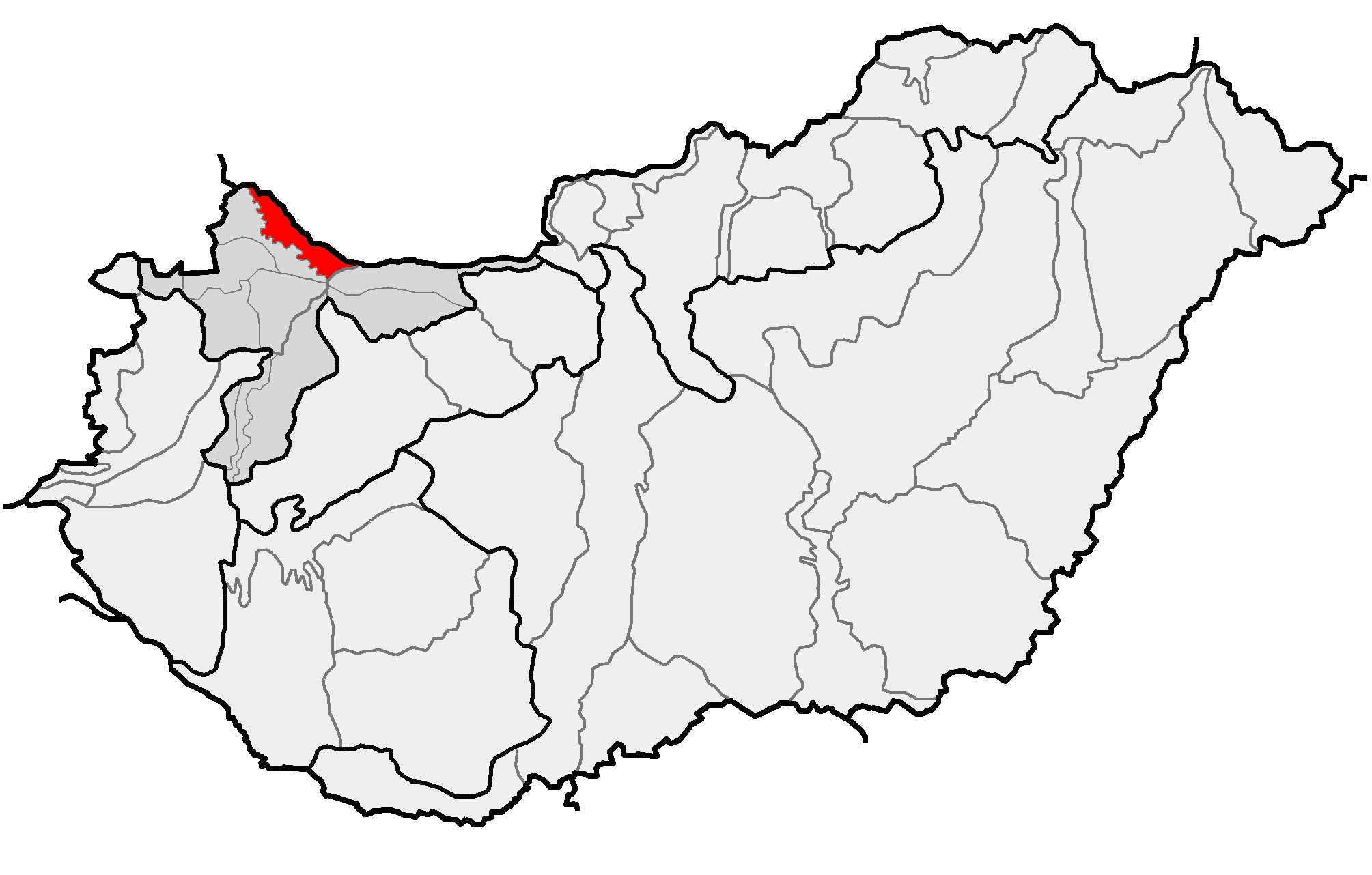 Location of geographical microregion of Szigetköz (red) and macroregion of Kisalföld (gray) within subdivisions of Hungary.